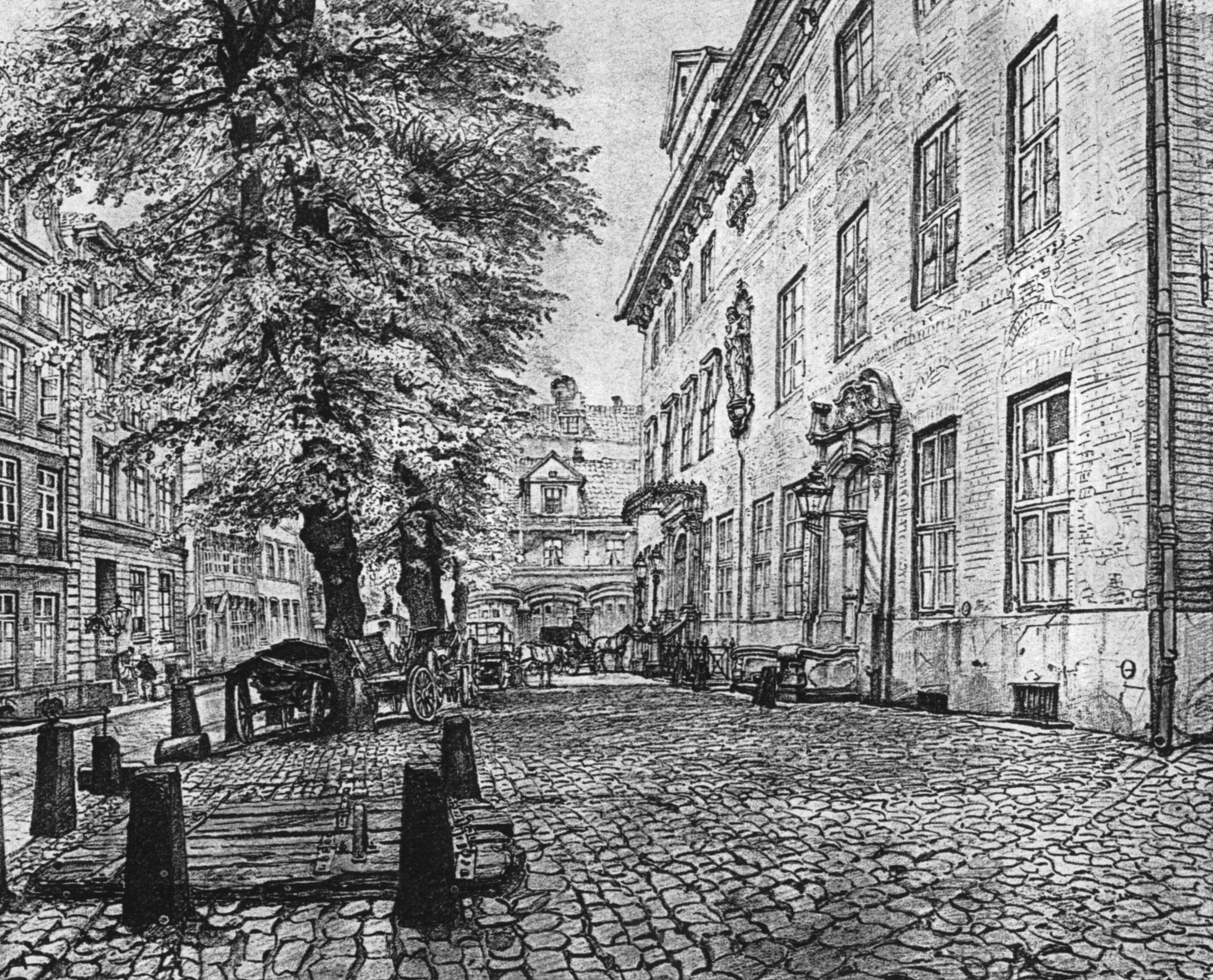 Mortzenhaus, city palace in Hamburg built after 1621, Alter Wandrahm 19-23